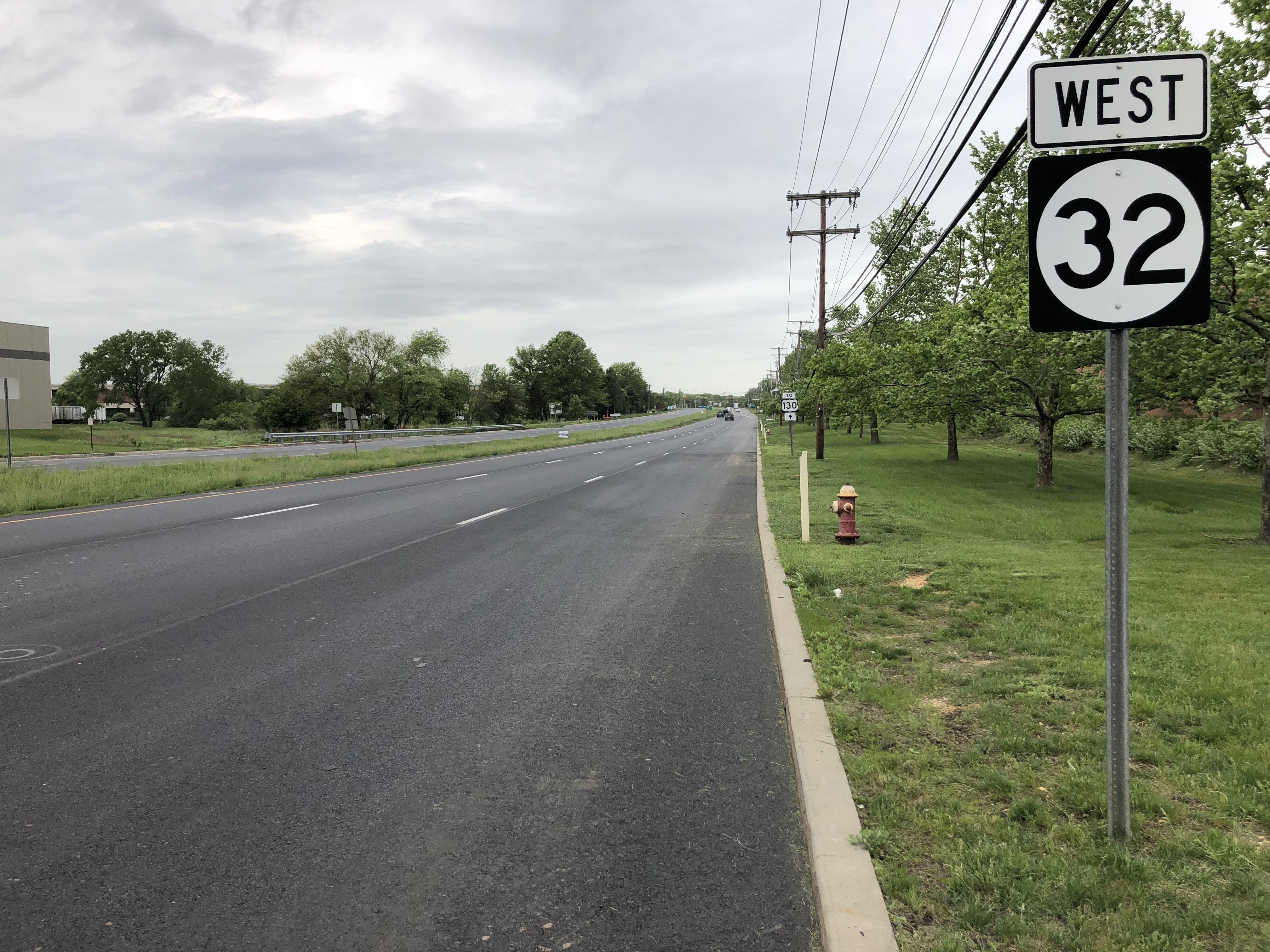 View west along New Jersey State Route 32 (Forsgate Drive) just west of Middlesex County Route 535 (Cranbury-South River Road) in South Brunswick Township, Middlesex County, New Jersey